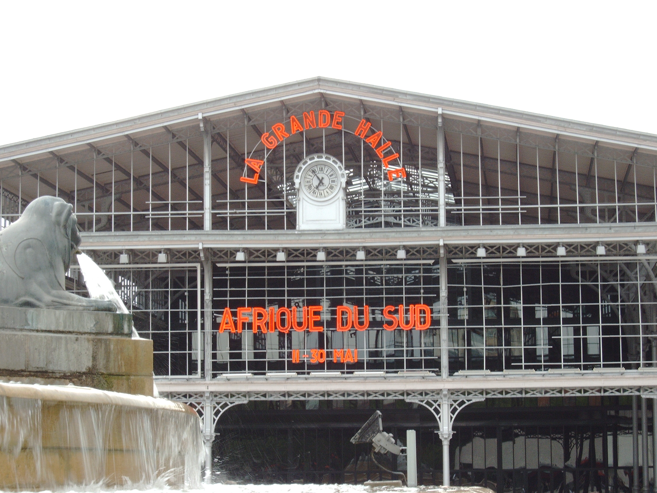 Grande halle de La Villette in Paris.